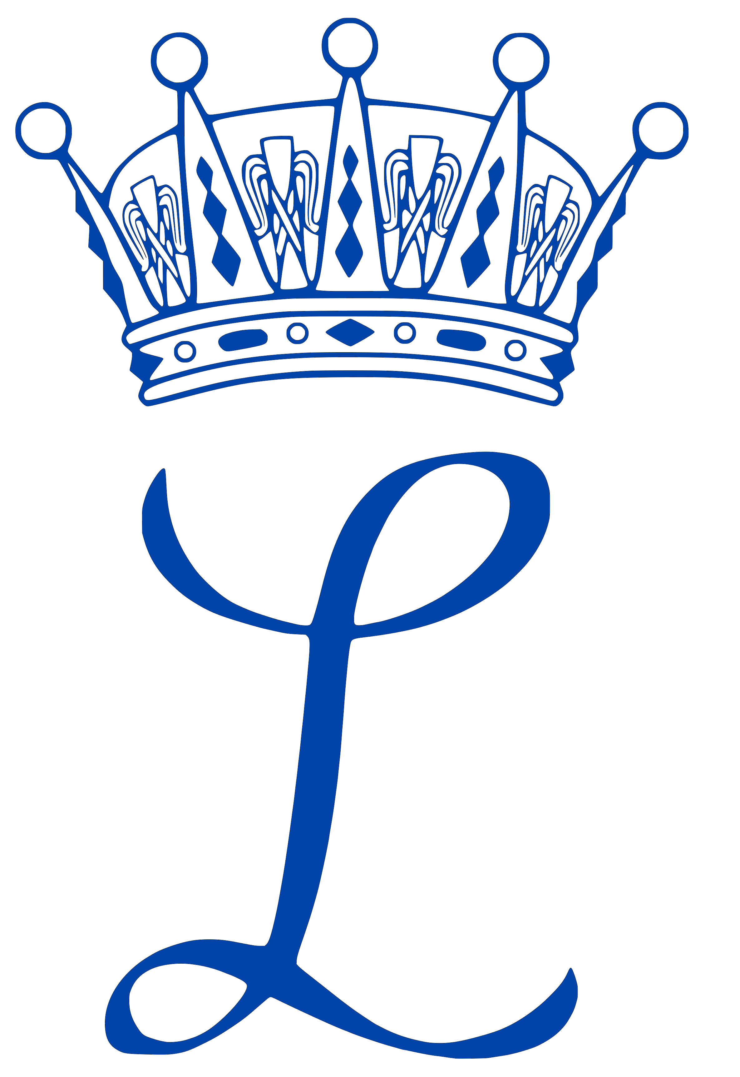 Royal Monogram of Princess Leonore, Duchess of Gotland